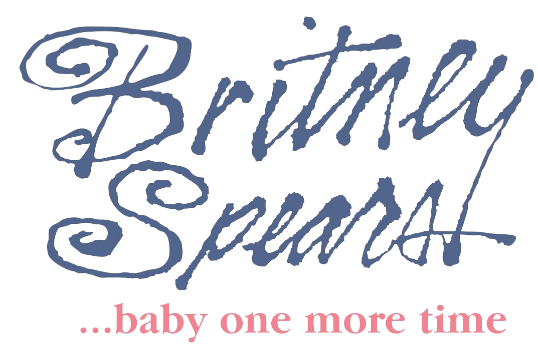 Logo for "...Baby One More time